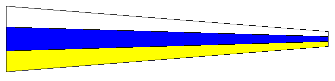 House master pennant of Swedish-speaking Uusimaa